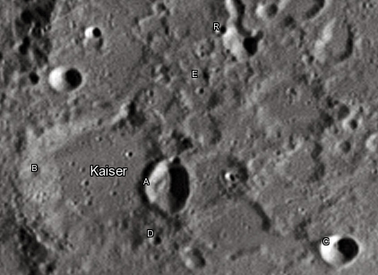 Kaiser lunar crater as seen from Earth with satellite craters labeled